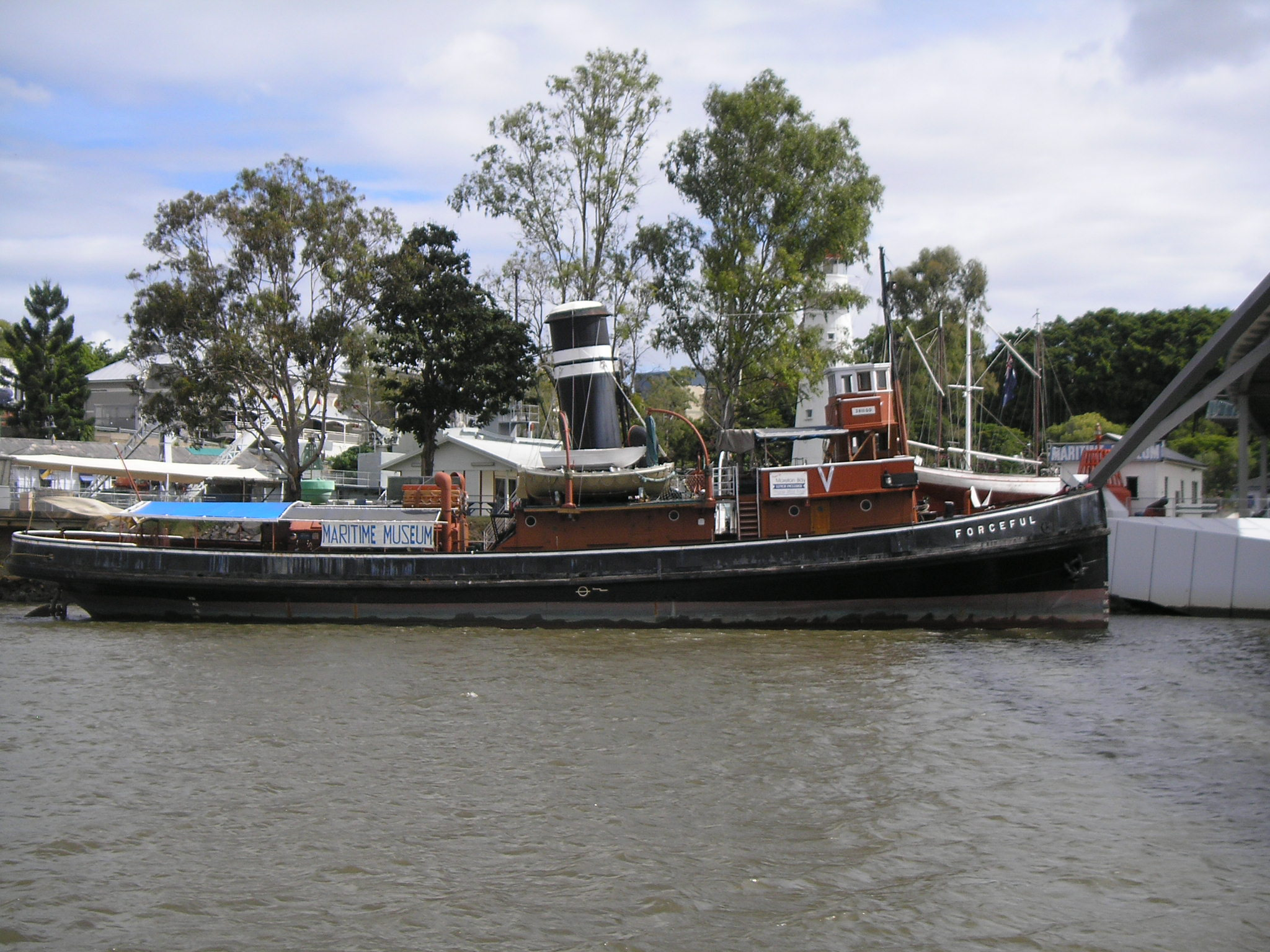 The former tugboat Forceful docked at the Queensland Maritime Museum in Brisbane